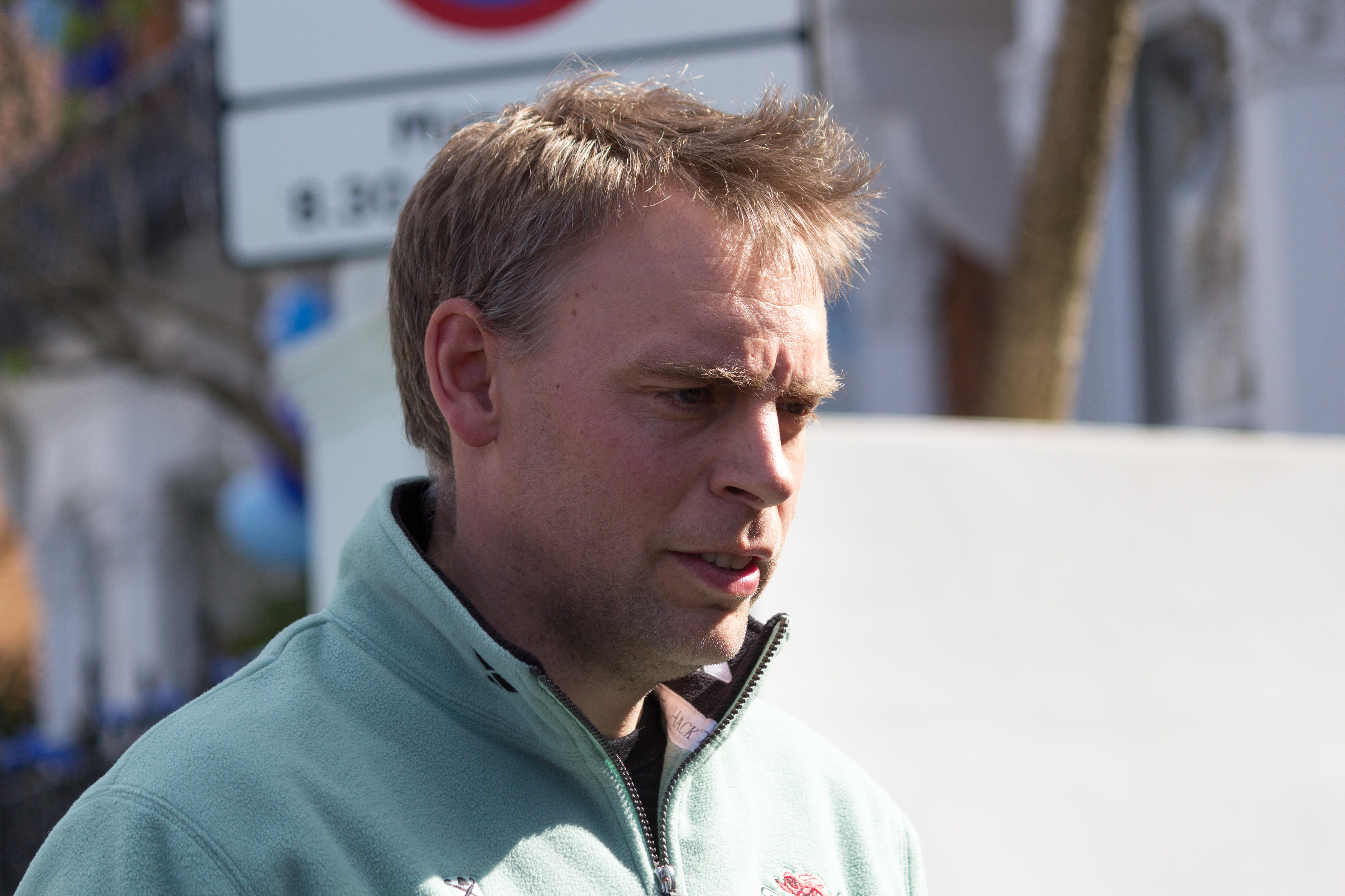 Steve Trapmore being interviewed before the 2015 Boat Race.